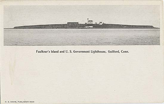 Postcard picture of Falkner's Island Lighthouse, postmarked 1904 The caption spells the name "Faulkner's" The lighthouse is off Guilford, Connecticut